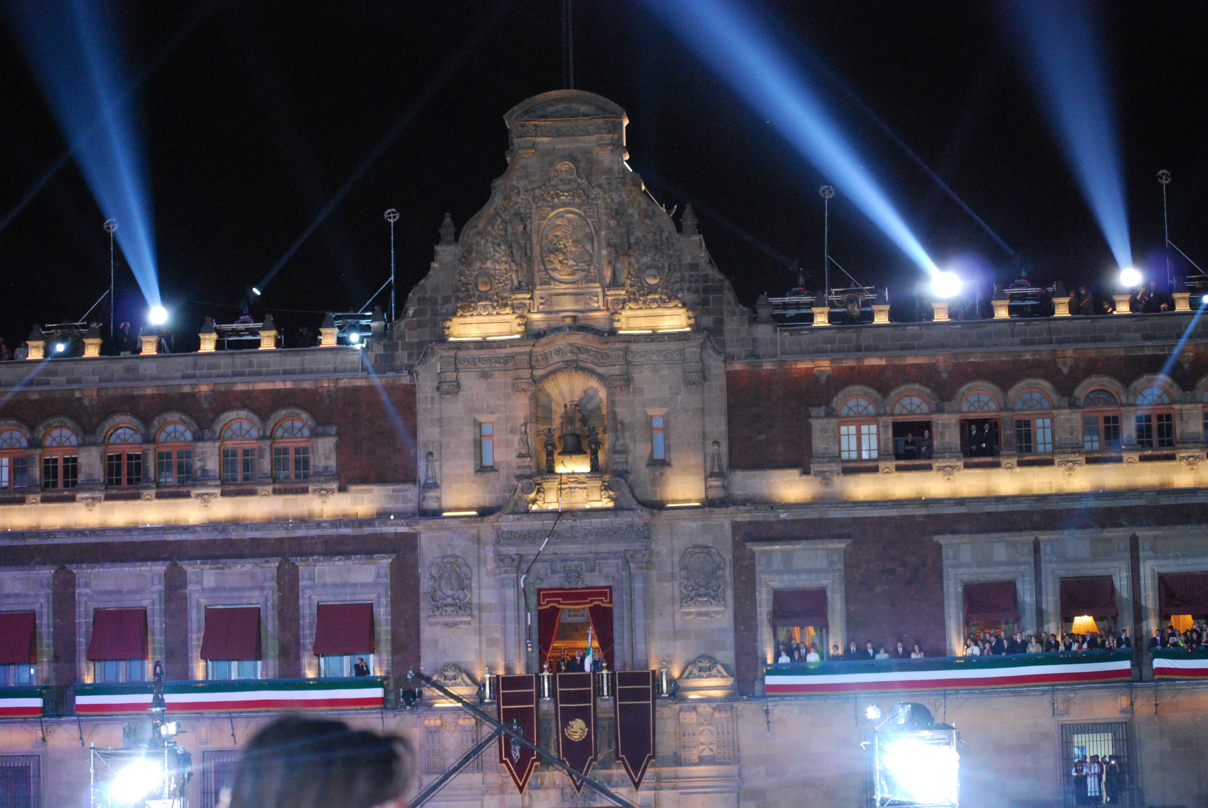 The "Grito" delivered by Felipe Calderon at the National Palace in 2010